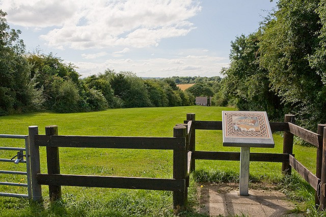 Broadview Recreation Ground, Kingsworthy The mosaic in the foreground was made by The Worthys Local History Group. It represents the possible appearance and setting of the Roman villa that once stood on a site at Woodhams Farm which is visible from here across the valley." That would be at SU 487 334.